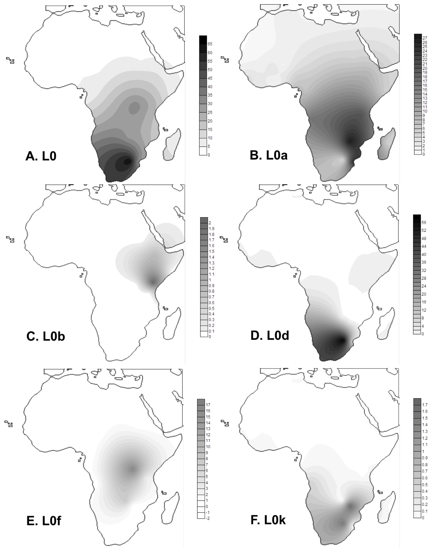 Frequency maps based on HVS-I (hypervariable segment I) data for mtDNA haplogroups L0 (total) (A), L0a (B), L0b (C), L0d (D), L0f (E) and L0k (F). (Note that color schemes are different in each maps).